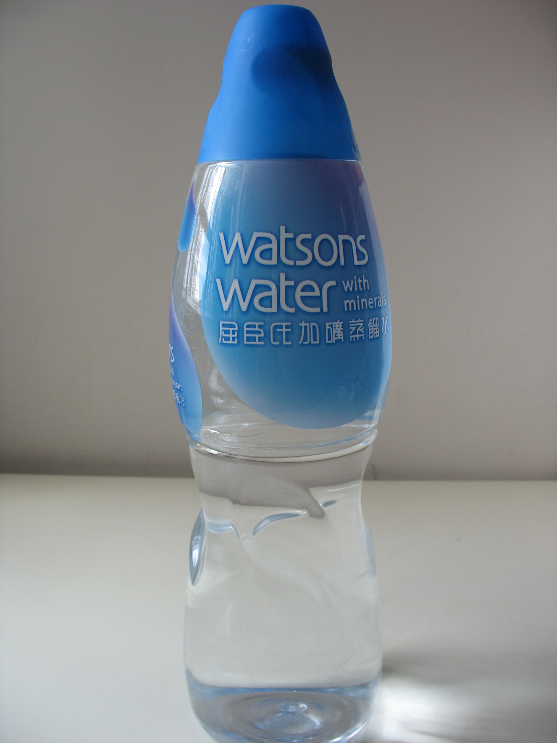 800mL bottle of Watsons Water with minerals from Hong Kong